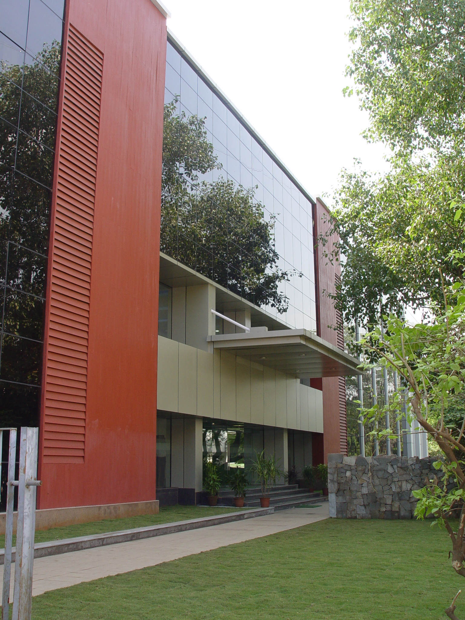 Tata Power SED - Mumbai Office